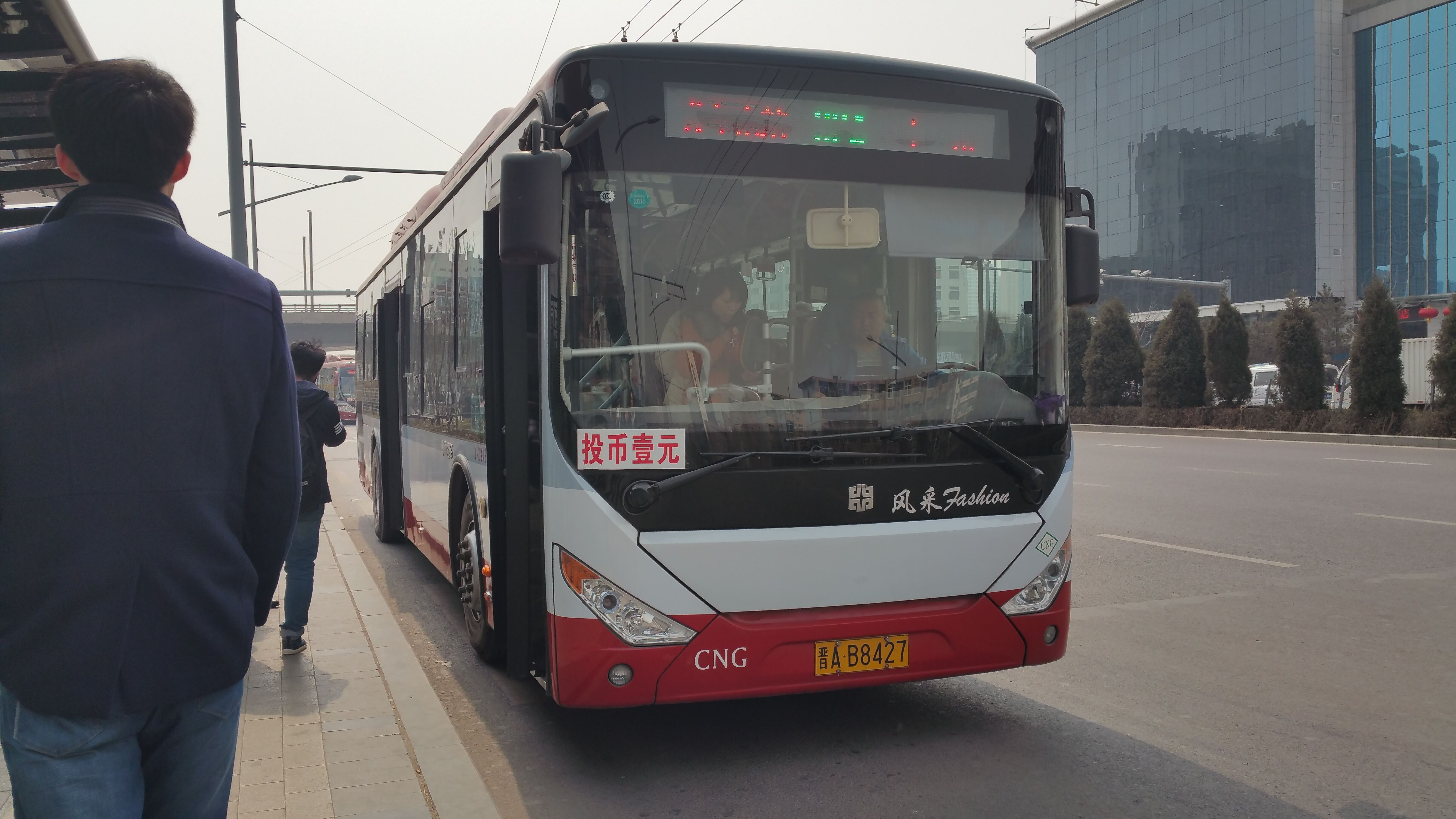 A bus at Taiyuan